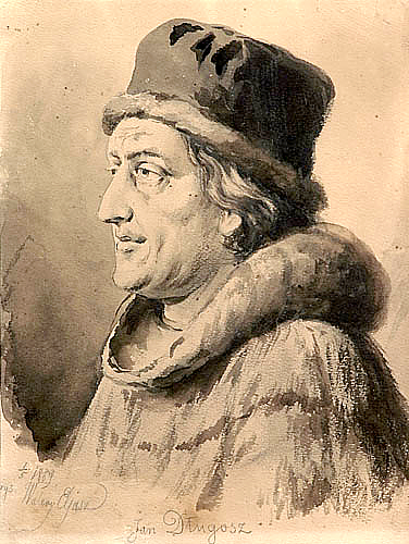 Jan Długosz